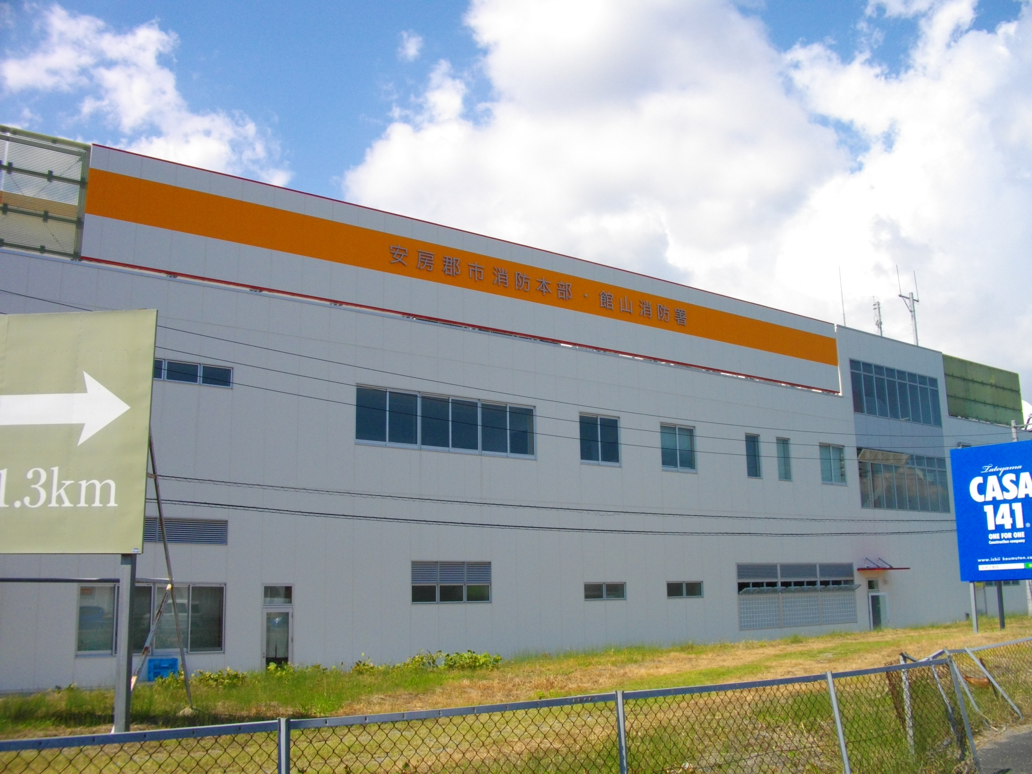 Awa Large Area Fire Department